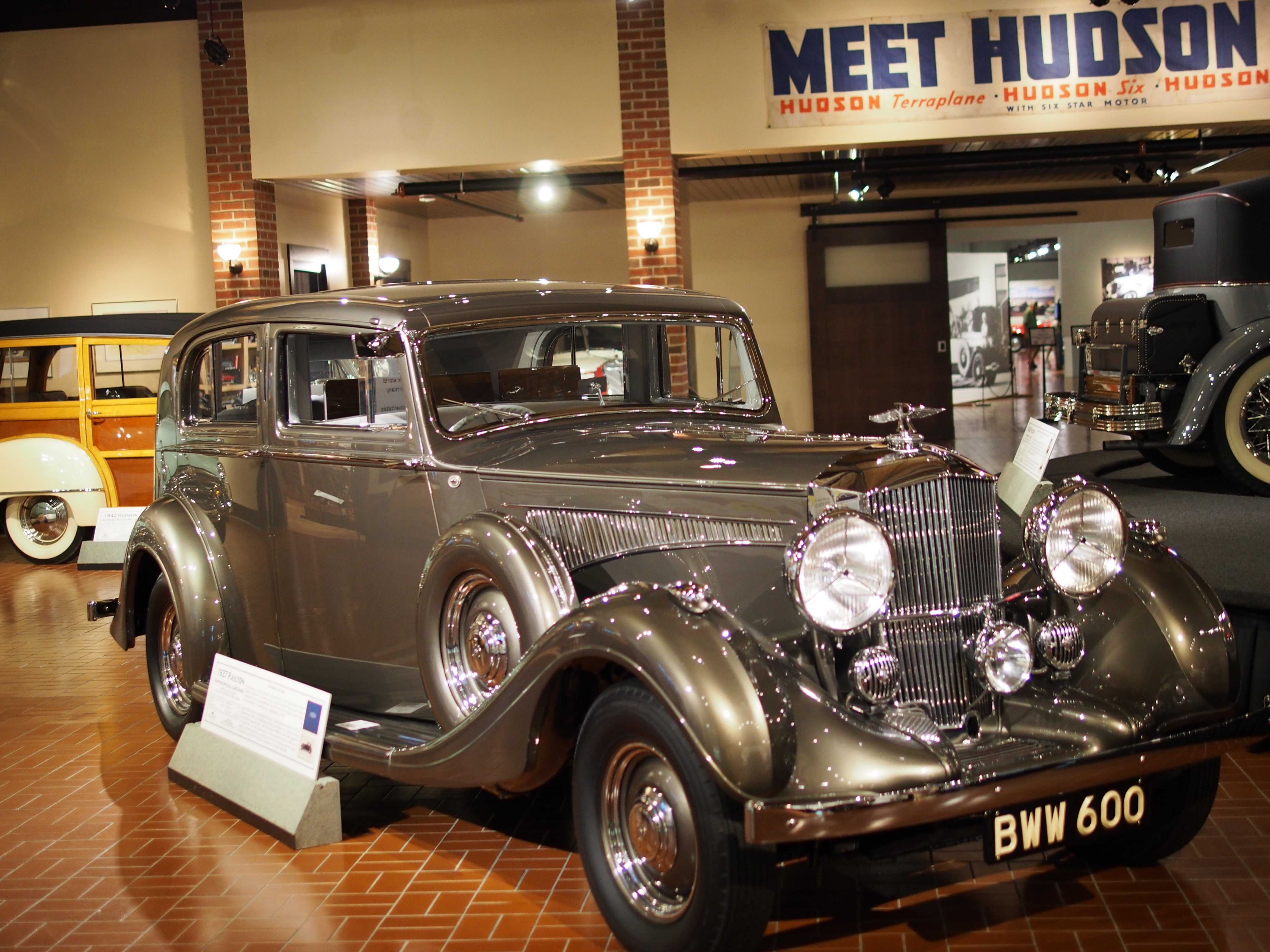 1937 Railton Rippon Special Limousine, EnglandGilmore Car Museum, Heritage Center